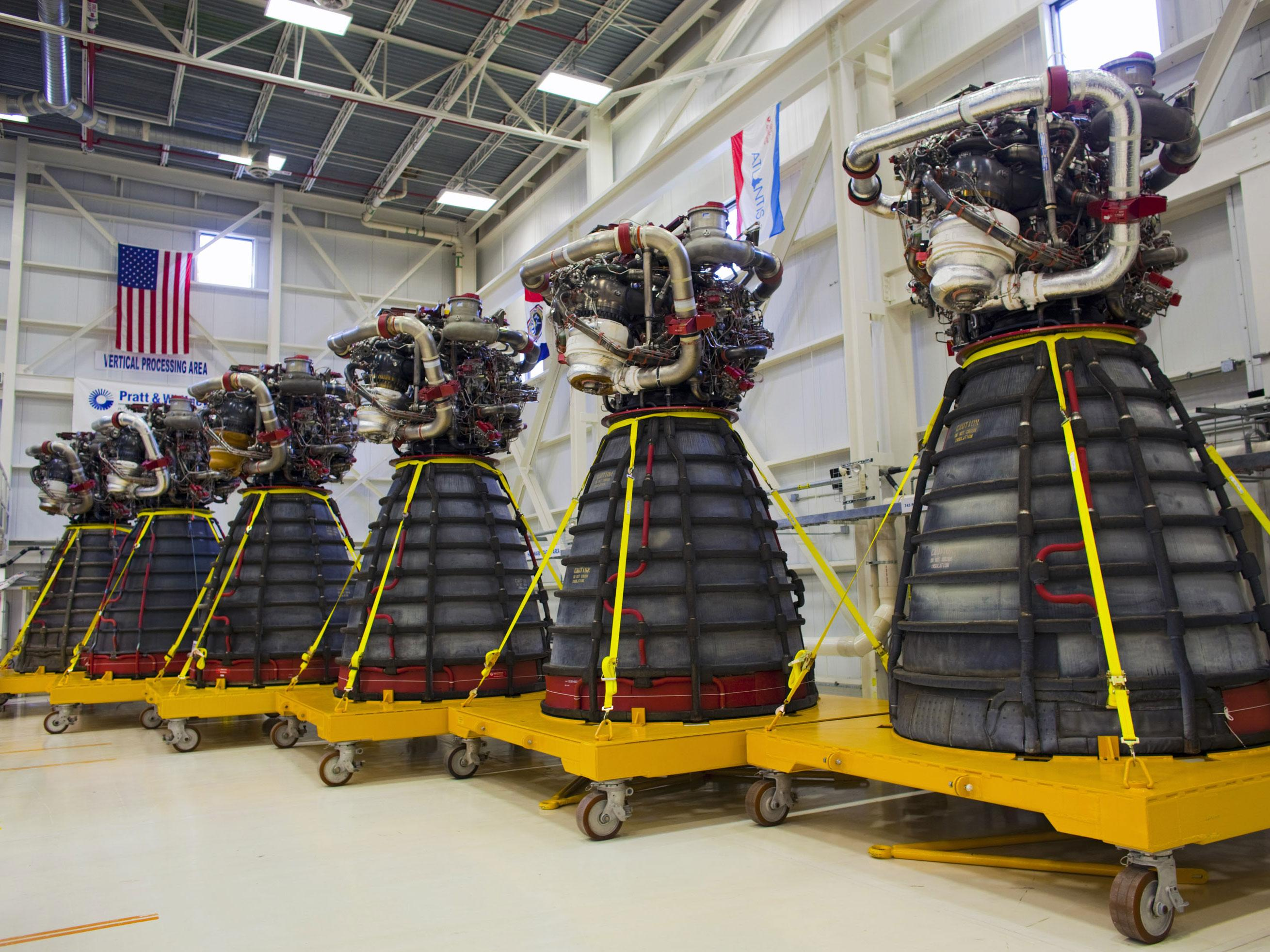 All six Pratt Whitney Rocketdyne space shuttle main engines from Endeavour's STS-134 and Atlantis' STS-135 missions sit in test cells inside the Engine Shop at NASA's Kennedy Space Center in Florida.